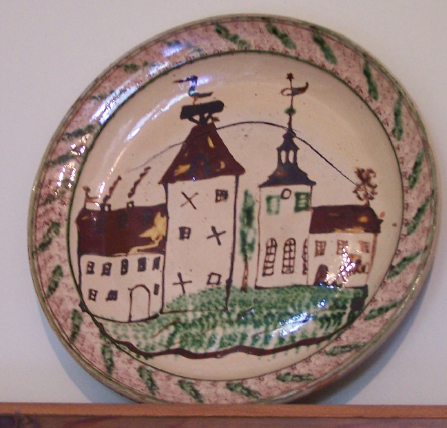 A Plate with the Gerstungen castle as motive - to find in the museum exhibition.